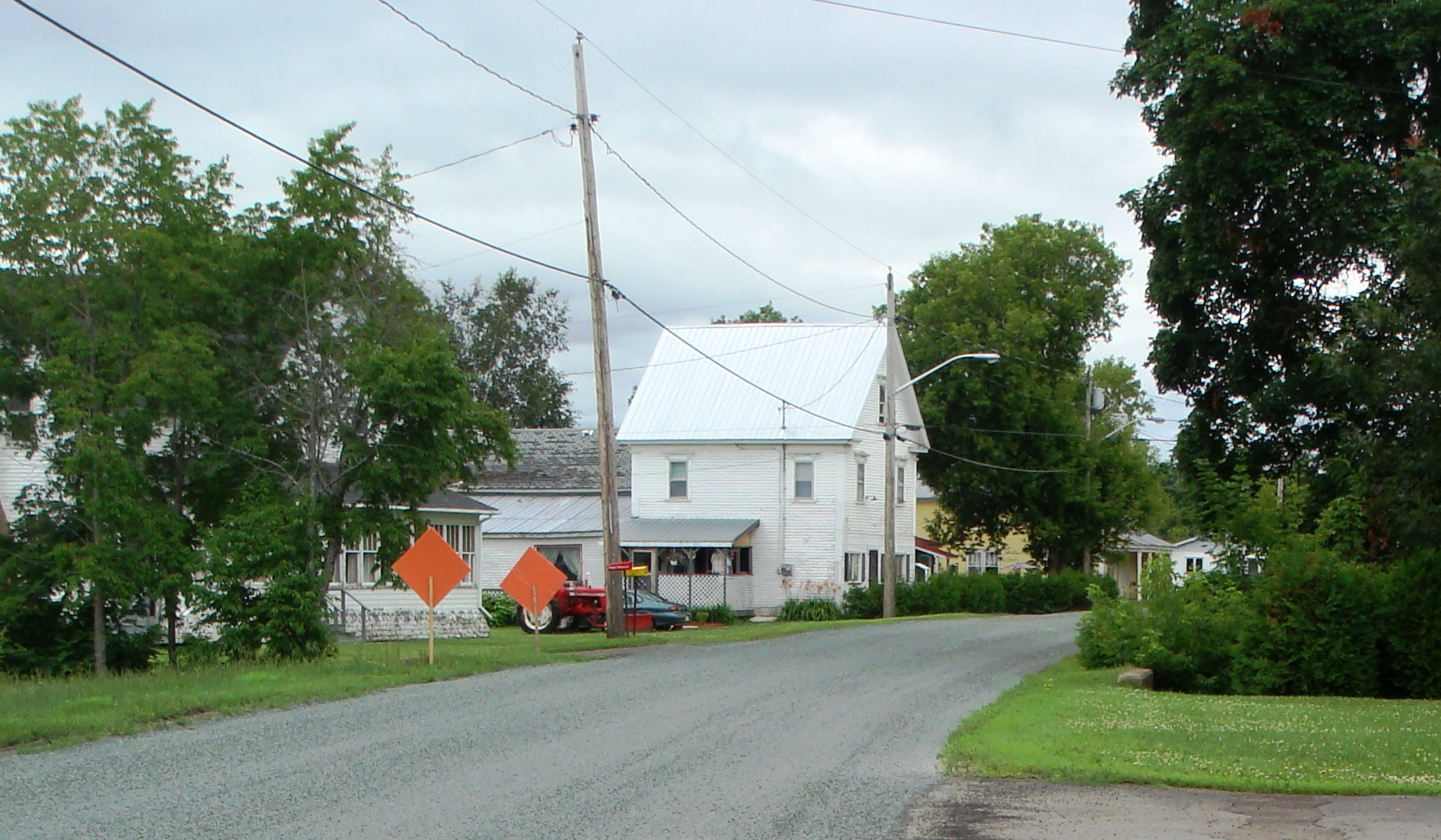 Upper Kent, Carleton County, New Brunswick, Canada